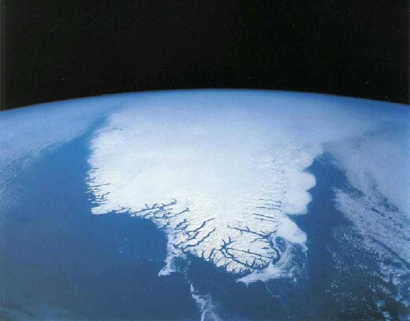 Space Shuttle photograph of the southern part of Greenland taken 29 March 1992. The north-looking view shows part of the Greenland ice sheet (the Inland Ice), rocky coastal areas covered by snow, and numerous fjords.